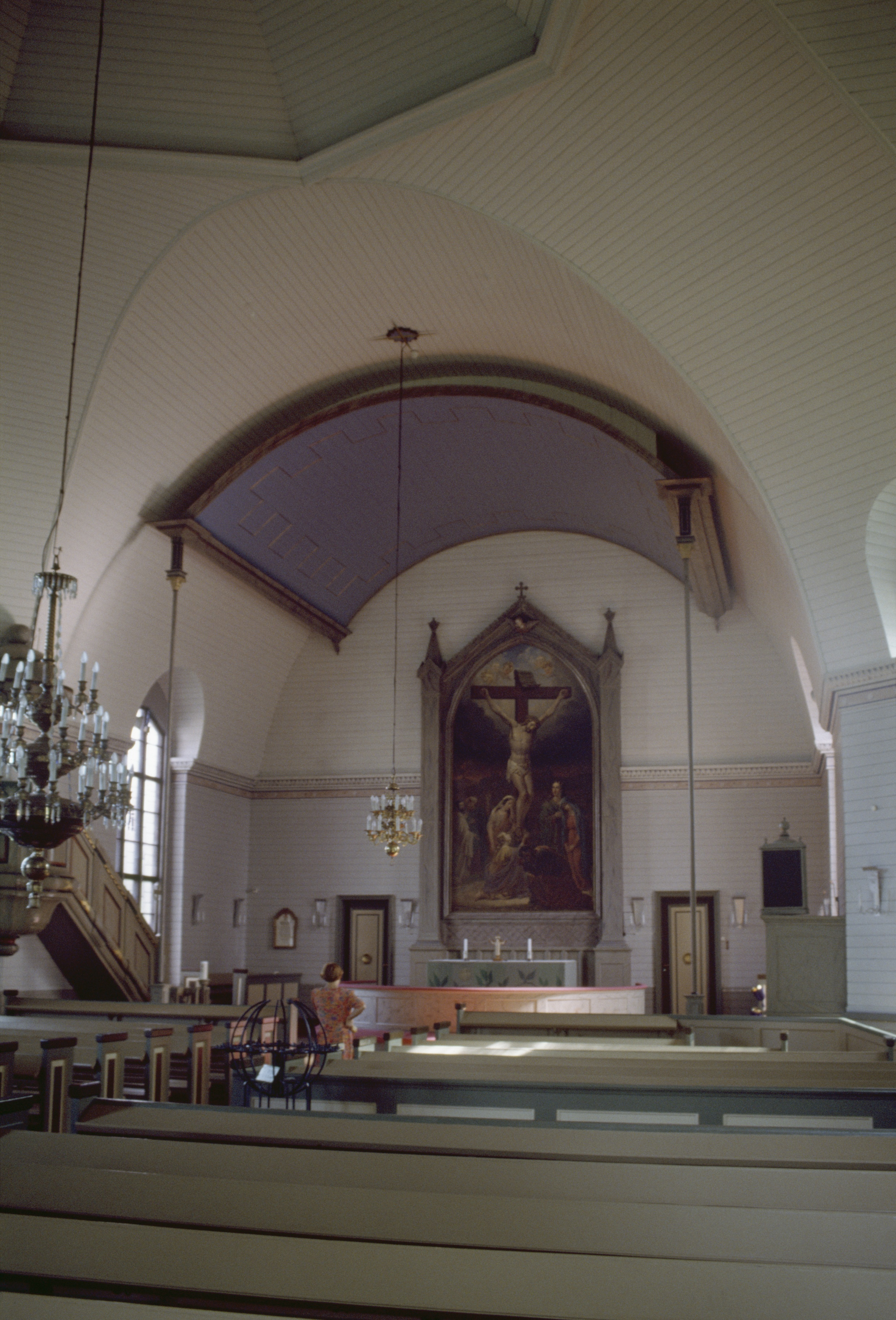 Interior of Viitasaari Lutheran Church.